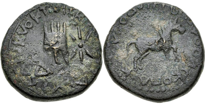 Artaxias III King of Armenia Artaxias III and a Numismatic Enigma